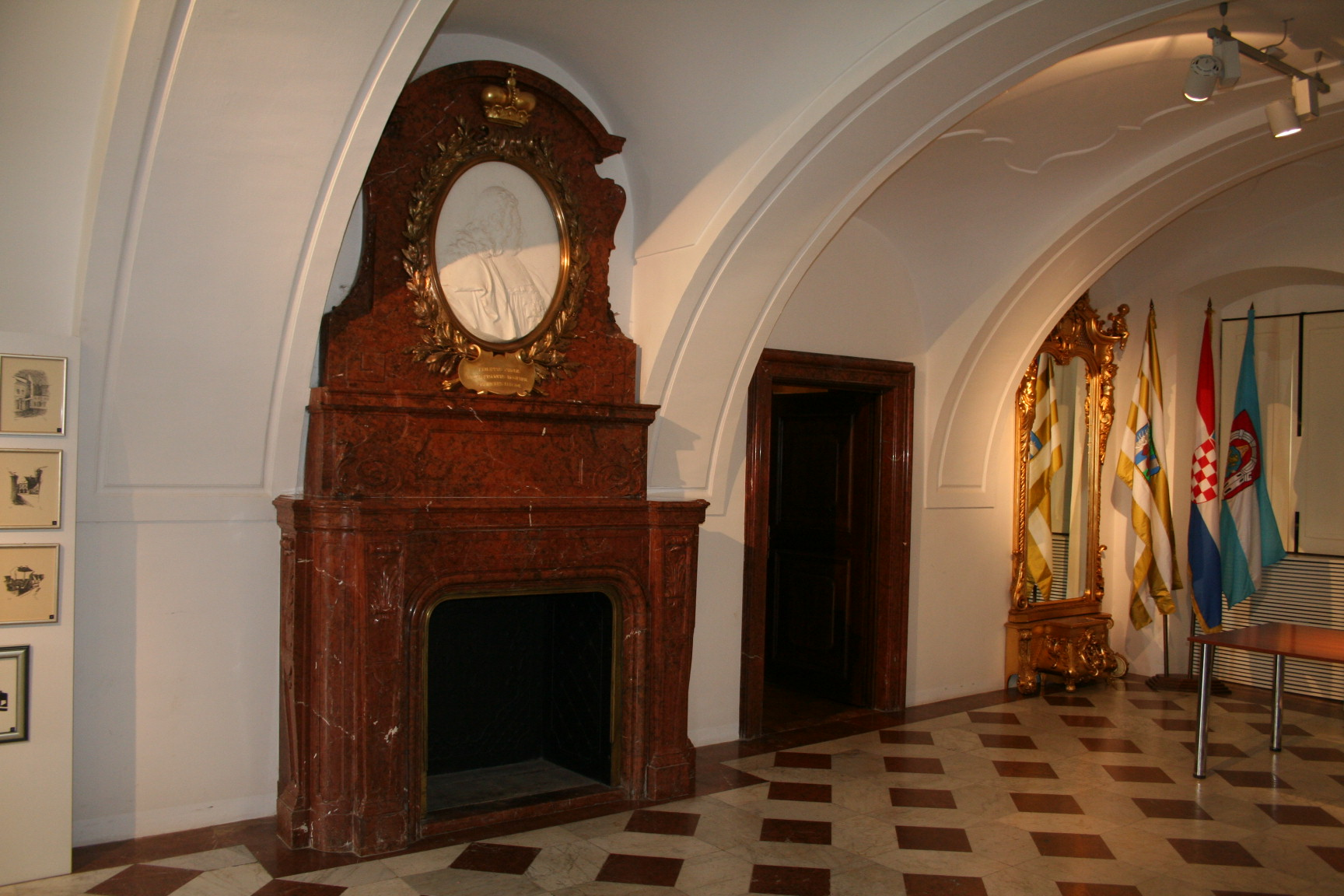 Vukovar City Museum (2015).